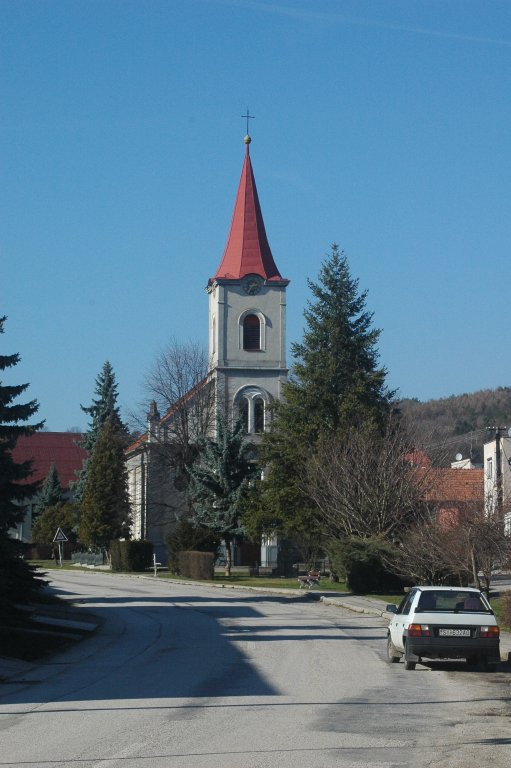 Častkov, St. Cyril and Methodius church